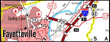 North Carolina Highway 295 shown in the 2013-2014 North Carolina Transportation Map.